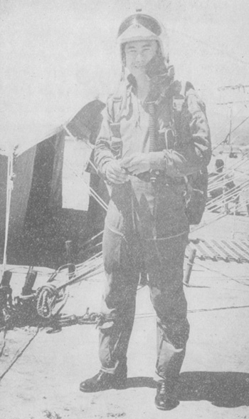 Sharbat Ali Changezi during Air Battle Over City of Lahore - September 20, 1965[1][2]